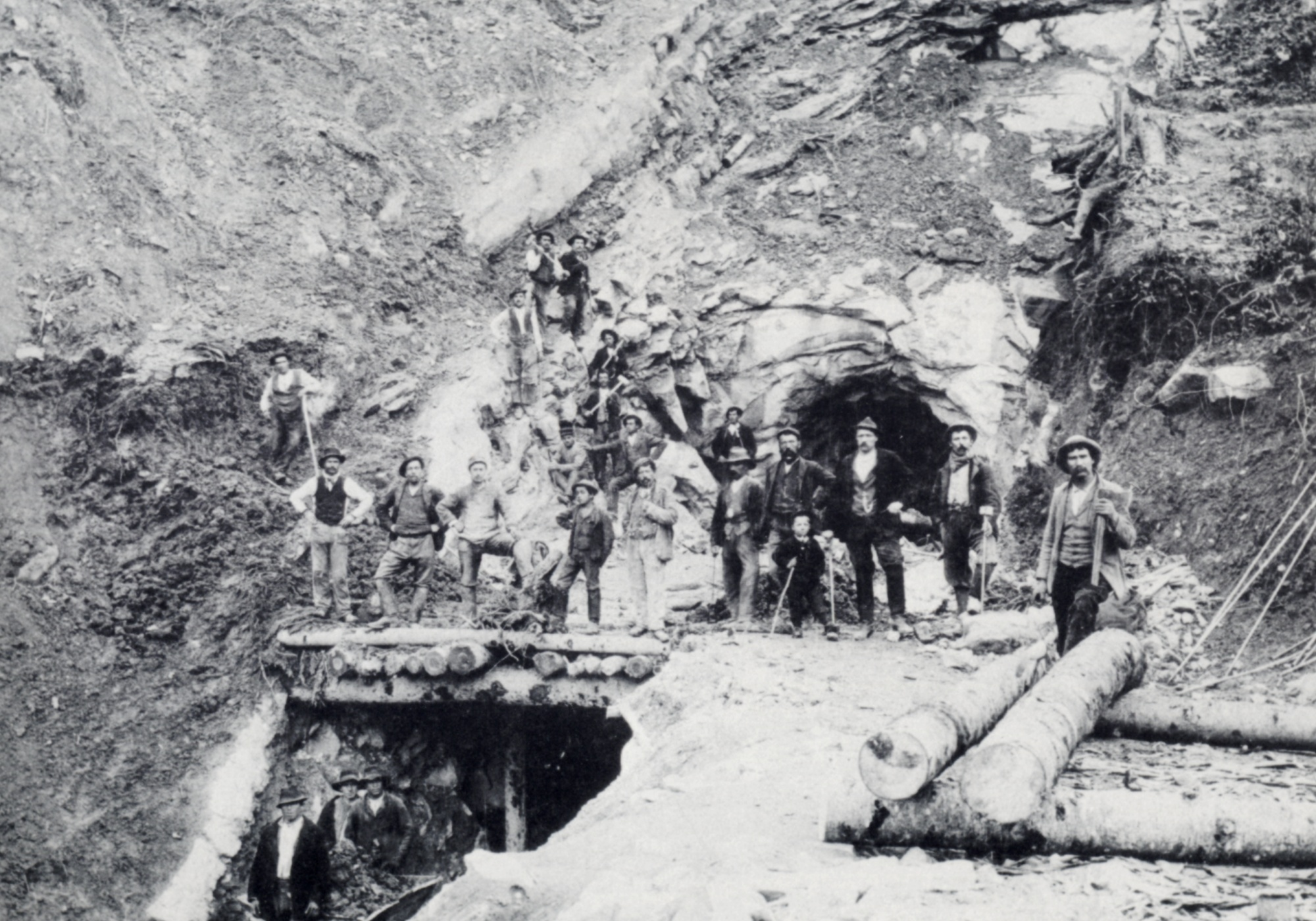 Construction of the Rotach tunnel of the Bregenzerwaldbahn in Vorarlberg